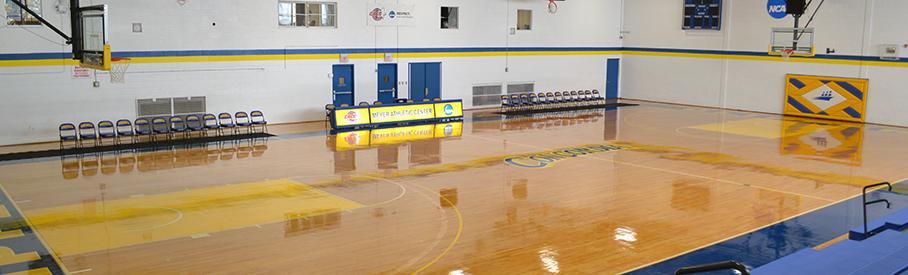 Athletics